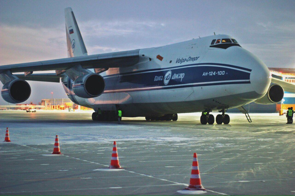 An-124 "Ruslan"